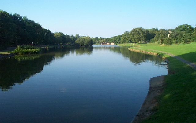 Corby Boating Lake. Viewed looking north-eastwards from the southern end, in 2002 this was certainly a popular lake for anglers and model boat enthusiasts, but despite its name I don't think that the general public were allowed to take to the water...!